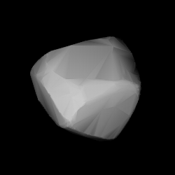 3D convex shape model of 803 Picka, computed using light curve inversion techniques. J. Hanuš, J. Ďurech, M. Brož, B. D. Warner (June 2011). "A study of asteroid pole-latitude distribution based on an extended set of shape models derived by the lightcurve inversion method". Astronomy and Astrophysics 530: A134. ISSN 0004-6361. arXiv